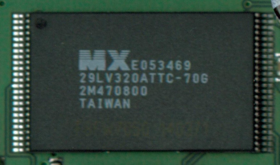 Macronix International Flash EEPROM chip MX29LV320ATTC-70G.